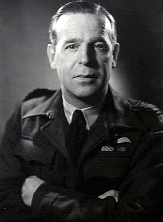 Group Captain C.C. McMullen AFC at RAAF Overseas Headquarters. McMullen was an Australian-born Royal Air Force officer.